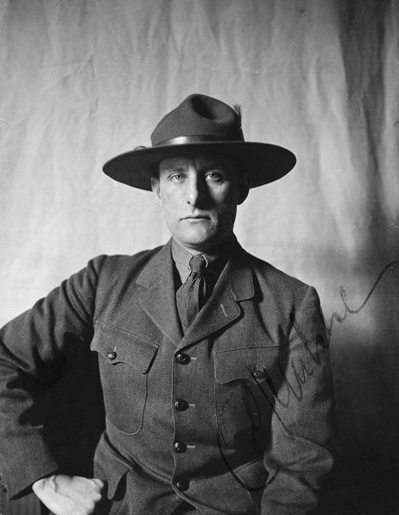 Danish non-commissioned officer Cay Lembcke (1885-1965)